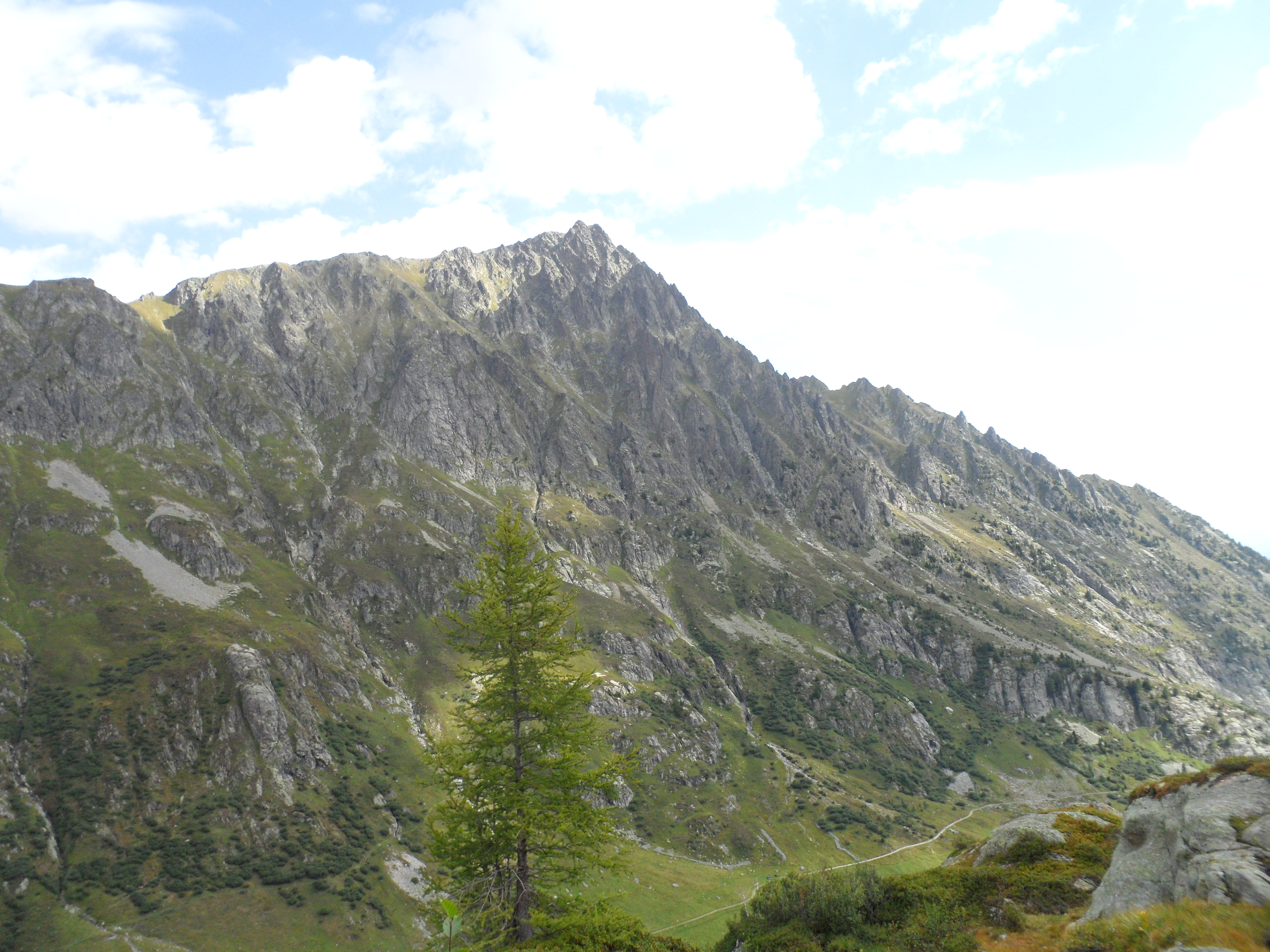 The Luisin seen from above the Emaney valley